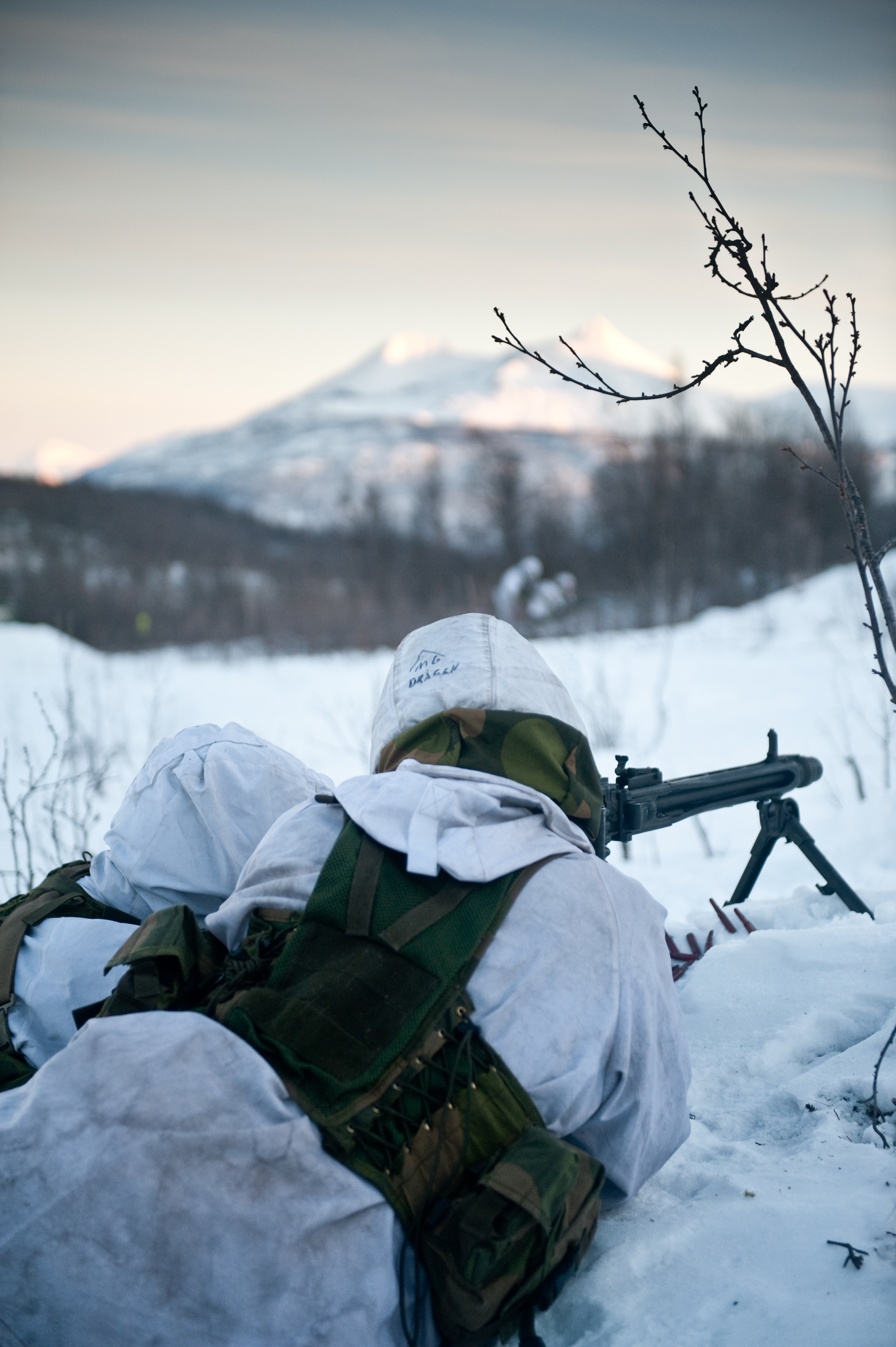 Norwegian soldiers during a military exercise.